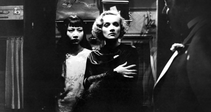 Shanghai Express (film) 1932 Josef von Sternberg, director L to R Anna May Wong, Marlene Dietrich. Paramount Pictures.